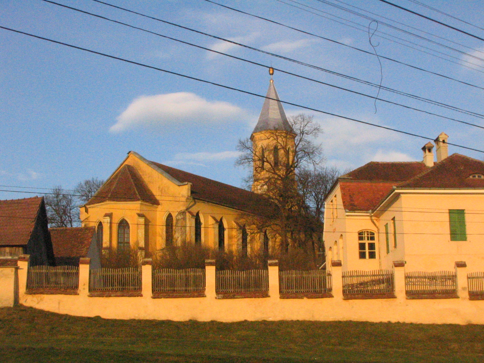 View on Church in Jibert, Judet Brasov, Romania